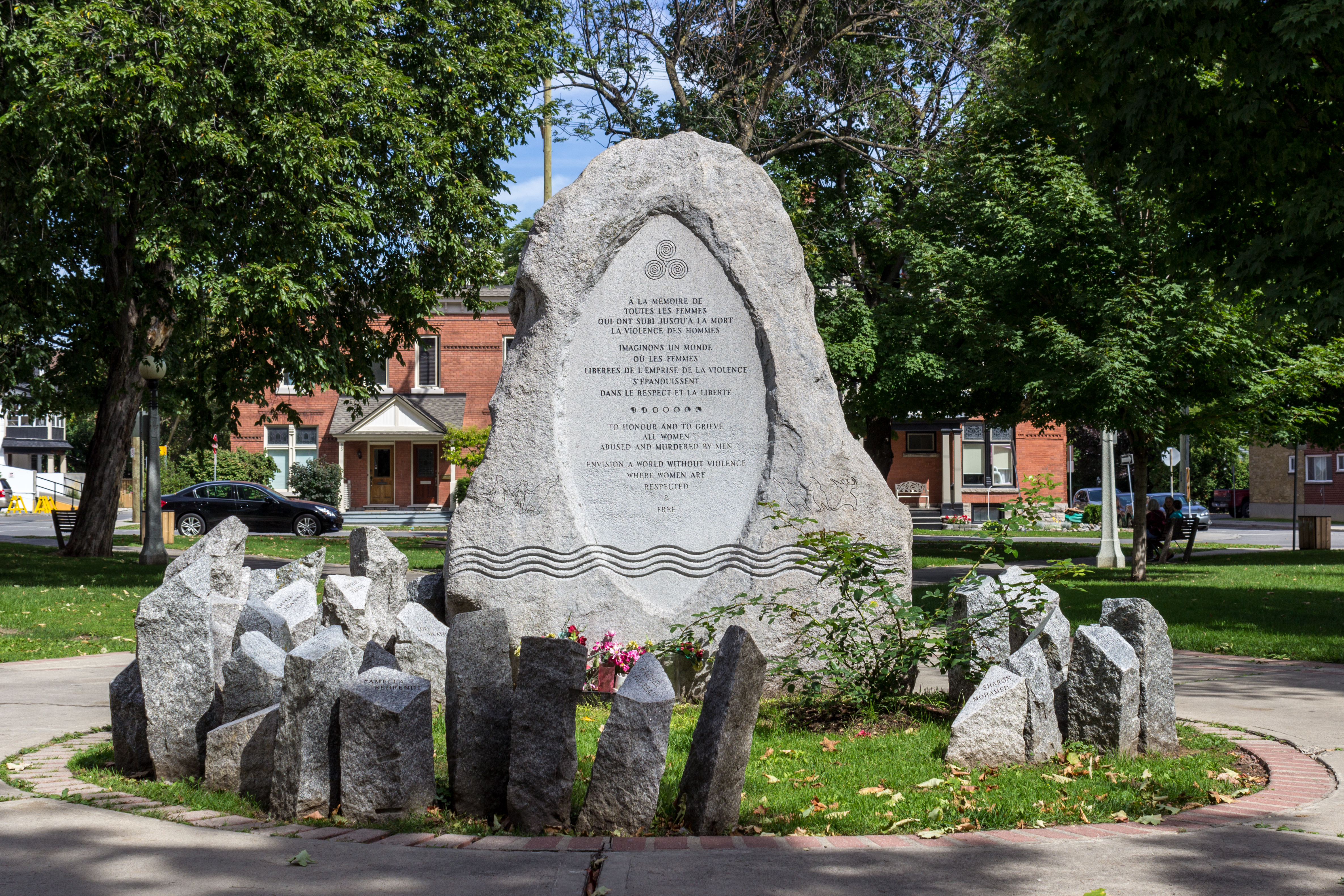 Memorial in Minto Park, Ottawa Afrikaans | Alemannisch | العربية | جازايرية | azərbaycanca | Bikol Central | беларуская | беларуская (тарашкевіца) | български | বাংলা | brezhoneg | català | čeština | Cymraeg | dansk | Deutsch | Zazaki | Ελληνικά | English | Esperanto | español | eesti | euskara | فارسی | suomi | français | Frysk | Gaeilge | galego | עברית | हिन्दी | hrvatski | magyar | հայերեն | Bahasa Indonesia | Ido | italiano | 日本語 | ქართული | 한국어 | Кыргызча | Lëtzebuergesch | latviešu | Malagasy | македонски | മലയാളം | Bahasa Melayu | Malti | नेपाली | Nederlands | norsk nynorsk | norsk | polski | português | português do Brasil | română | русский | sicilianu | slovenčina | slovenščina | shqip | српски / srpski | svenska | ไทย | Tagalog | Türkçe | українська | اردو | 中文 | 中文（中国大陆） | 中文（简体） | 中文（繁體） | 中文（香港） | 中文（台灣） |+/−